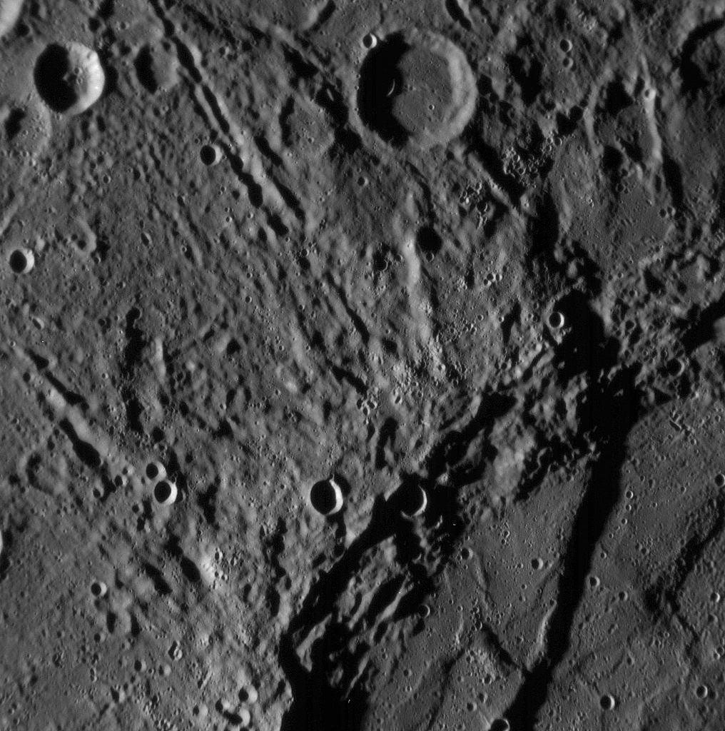 NASA’s MESSENGER spacecraft captured this image (EN0108826105M) on January 14, 2008, during its closest approach to Mercury. The image reveals a variety of intriguing surface features, including craters as small as 300 yards across. It shows part of what is now known as Beagle Rupes, cutting across Sveinsdóttir crater.